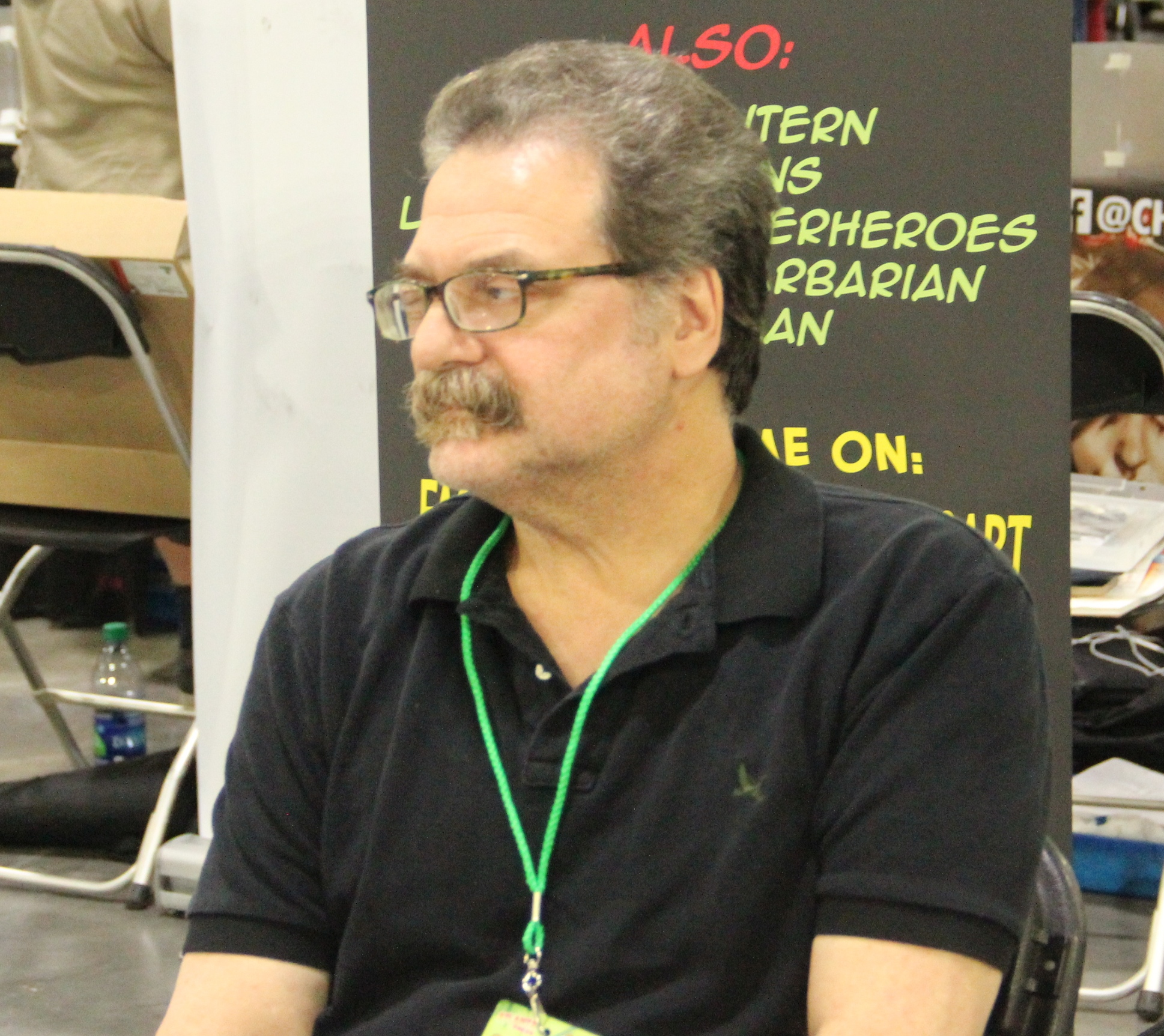 Mike DeCarlo